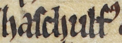 An excerpt from folio 46v of British Library MS Royal 13 B VIII (Expugnatio Hibernica) showing the name of Ascall mac Ragnaill, King of Dublin (died 1171). The excerpt reads in Latin: "Hasculphus".